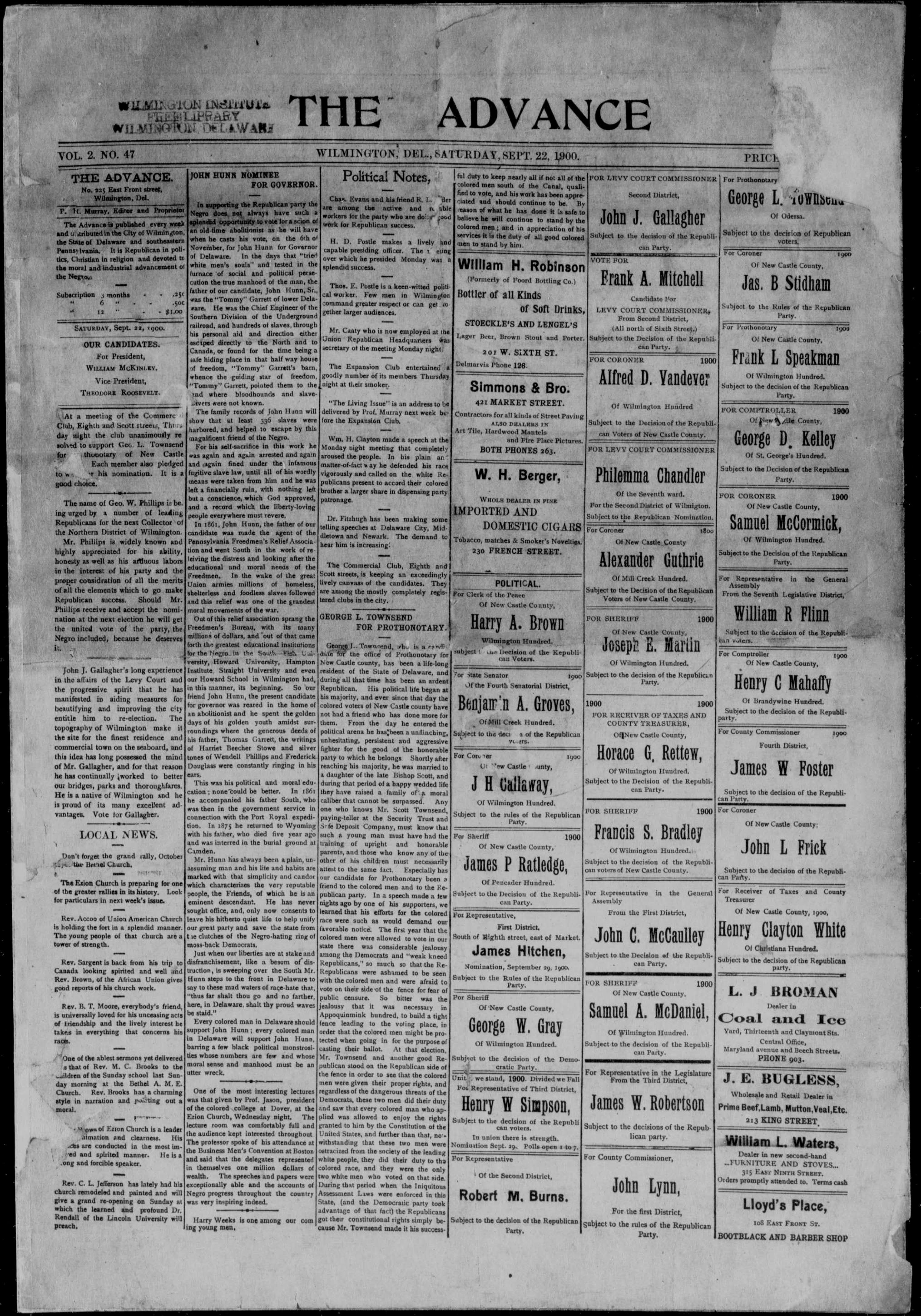 Front page of The Advance, one of the earliest known African-American newspapers in Wilmington, from September 22, 1900. Much of the page is devoted to endorsements for the 1900 general election, including McKinley-Roosevelt for president.